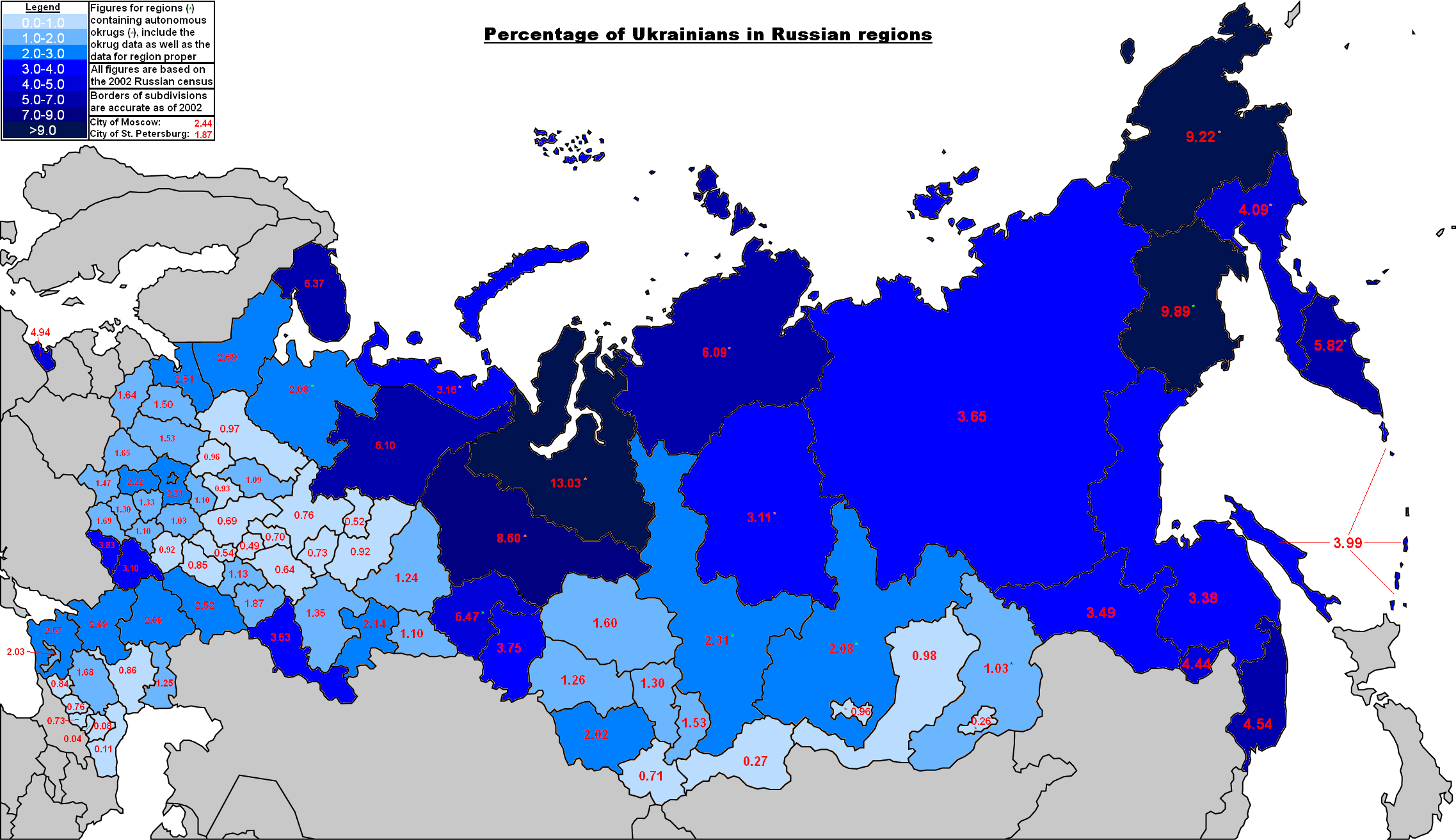 Map of Russia (in 2002 subdivisions) with proportions of Ukrainians in every region based on the 2002 Russian census